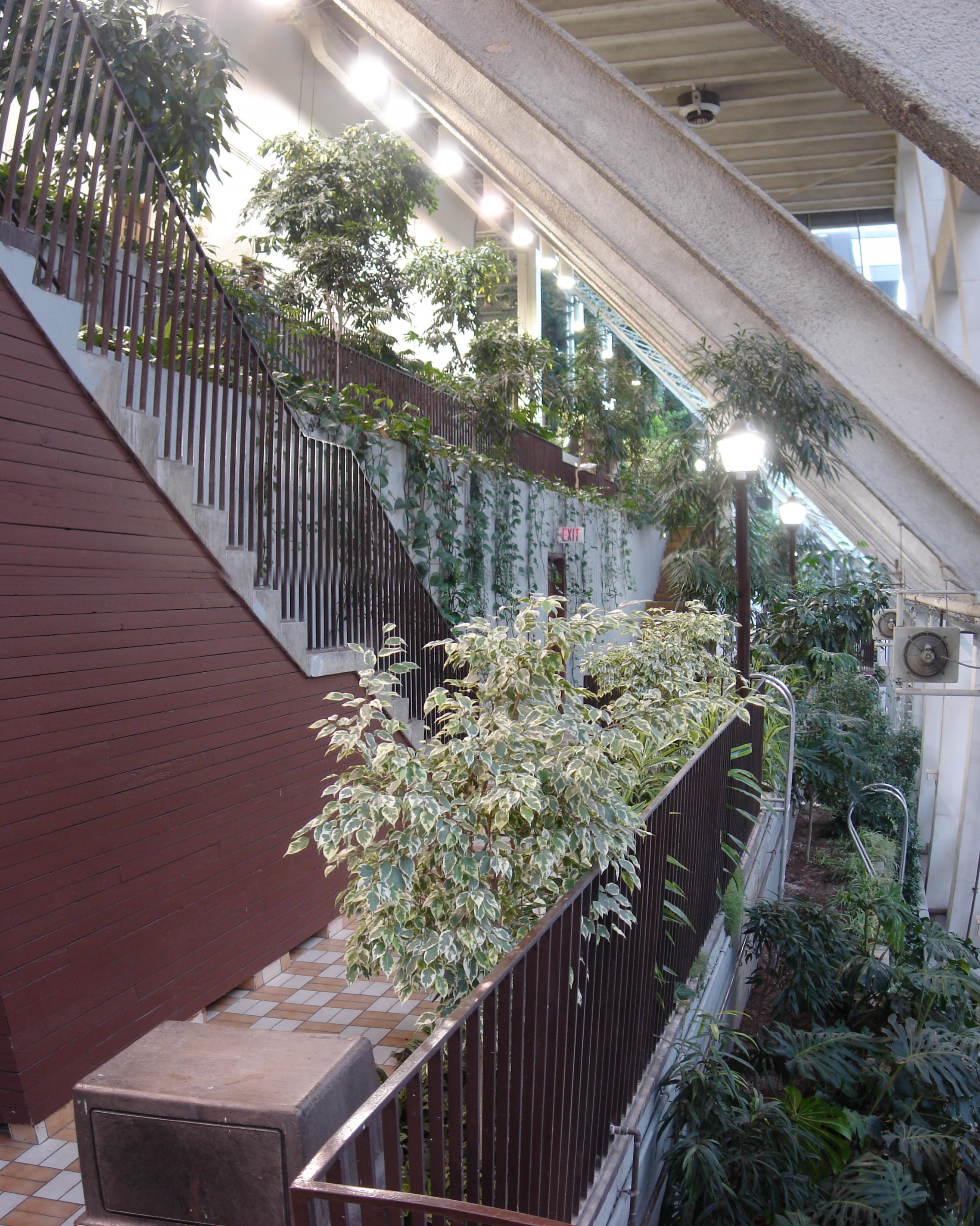 Devonian Gardens botanical garden in Calgary, Alberta, Canada, waterfall